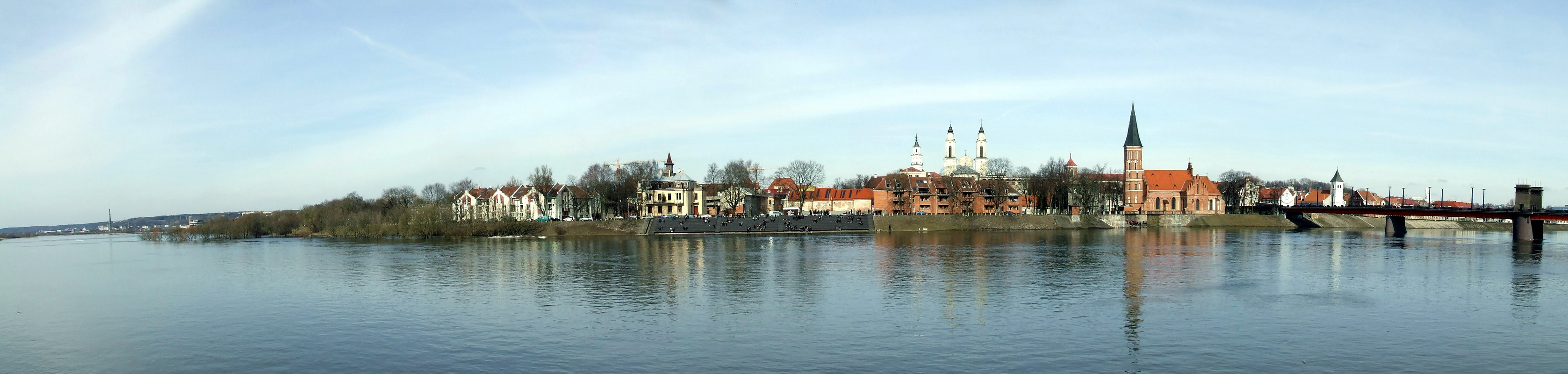 Panorama of Nemunas river in Kaunas